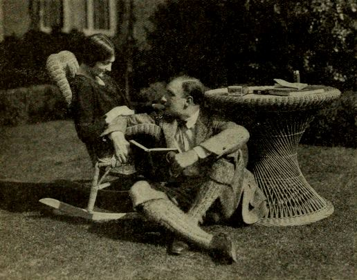 Actors Frank Mayo and Dagmar Godowsky at home, on page 74 of the May 1922 Photoplay Magazine.